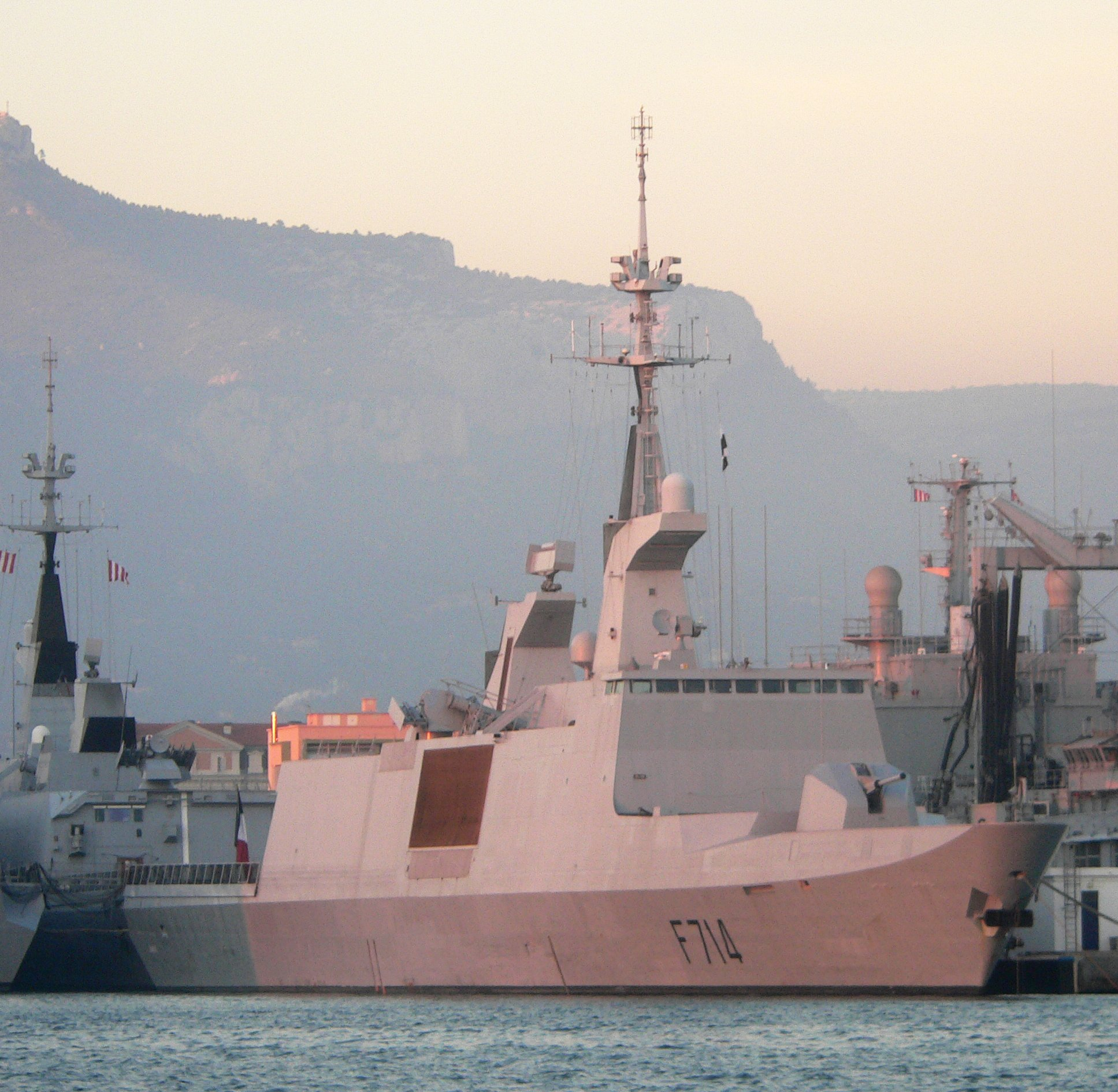 Frigate Guépratte, of the French Navy, in the military harbour of Toulon, France